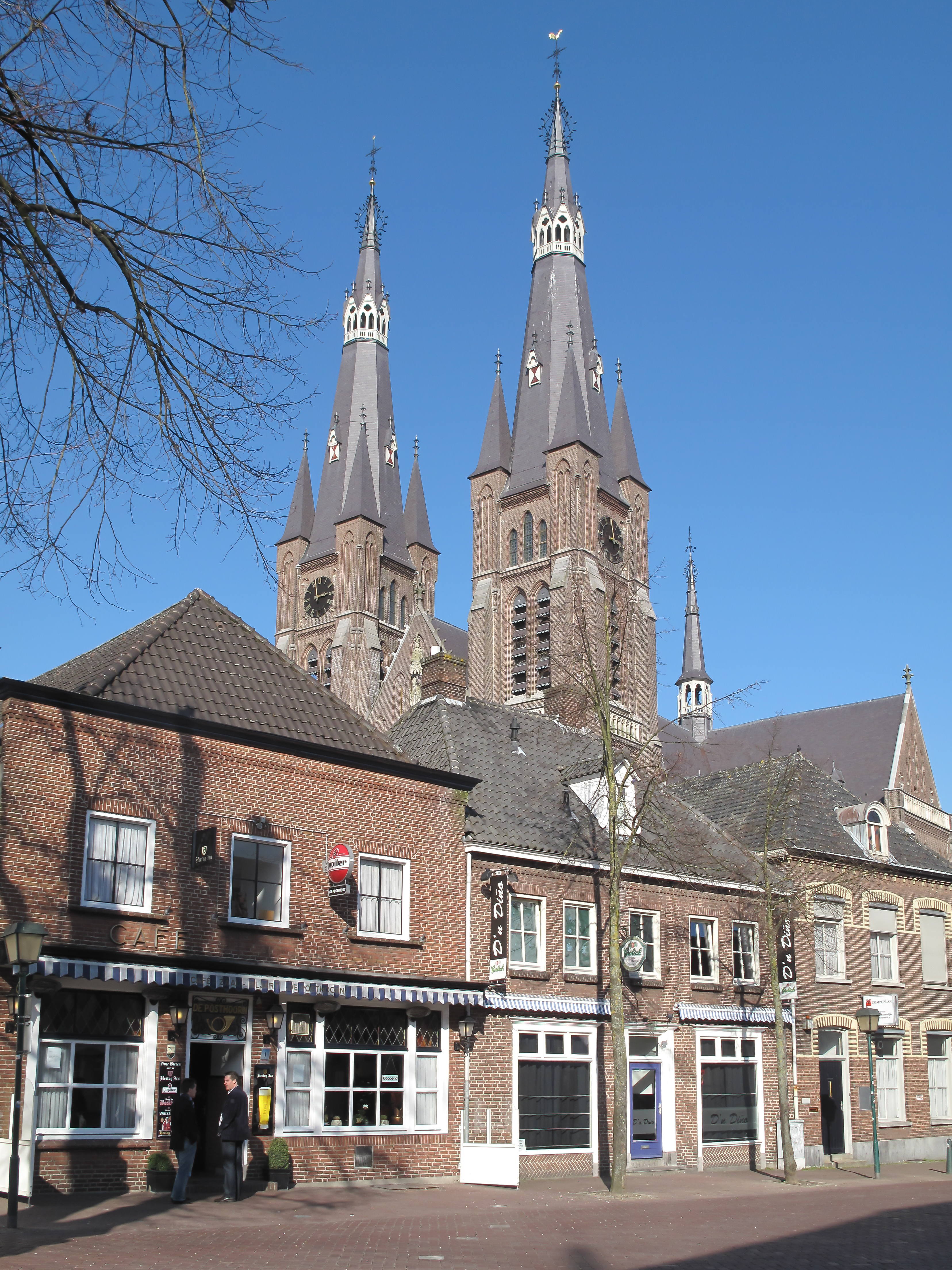 Cuijk, church (de Sint Martinuskerk) in the street